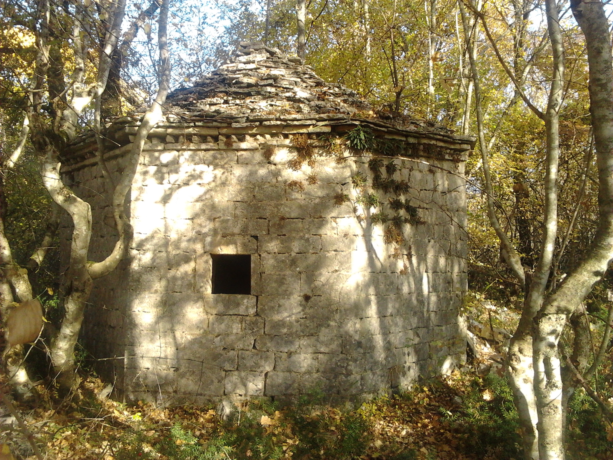 Bektashi Tekke of Voshtina (Pogoniani).